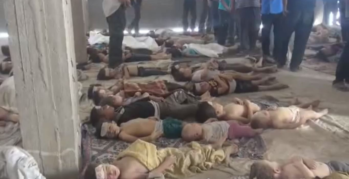 People and children in Ghouta massacre, victims of chemical attack.